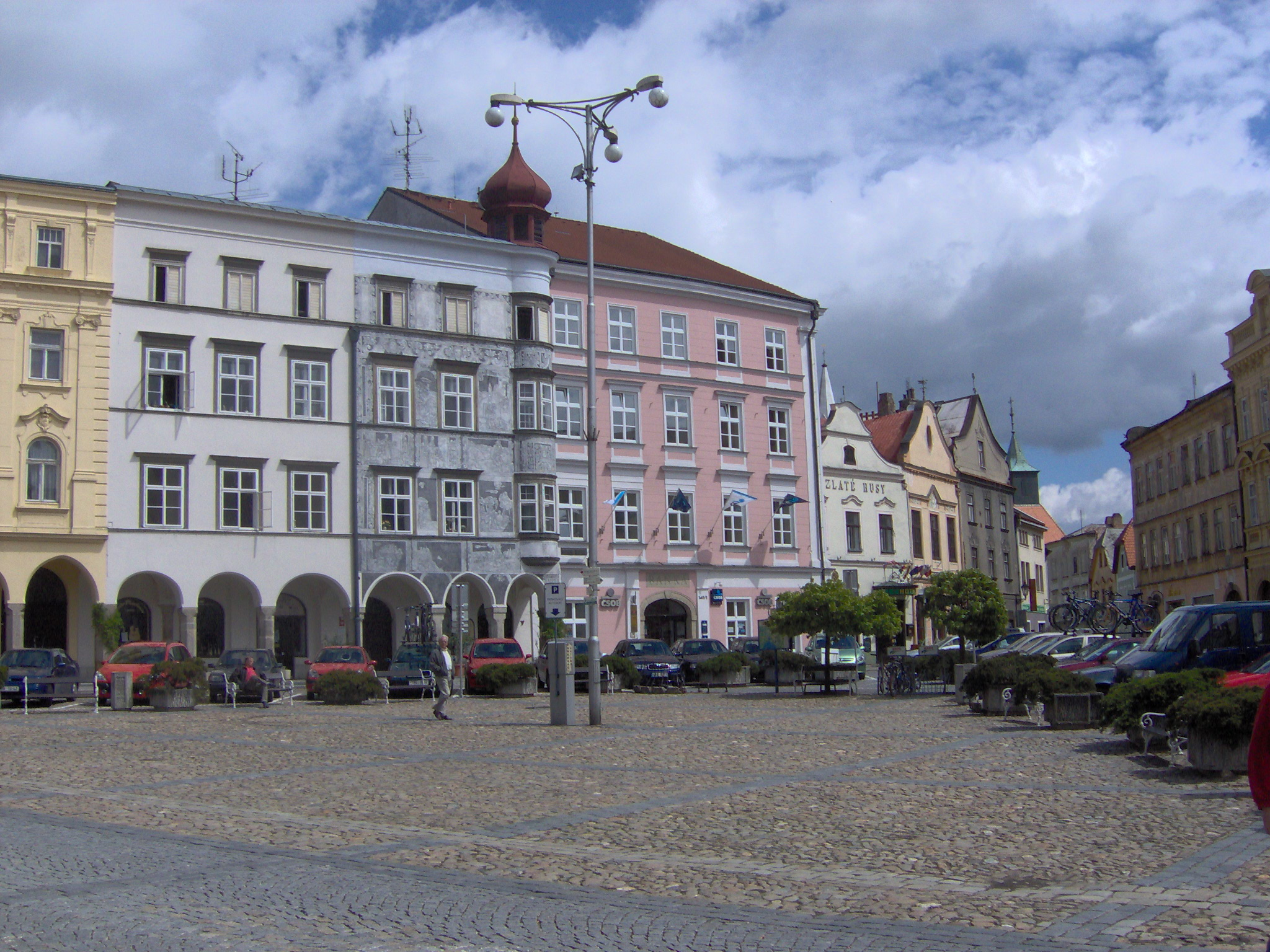 Square in Jindřichův Hradec, South Bohemian Region, Czech republic